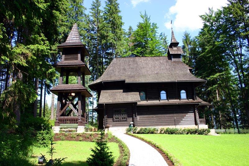 Wisla (Poland)